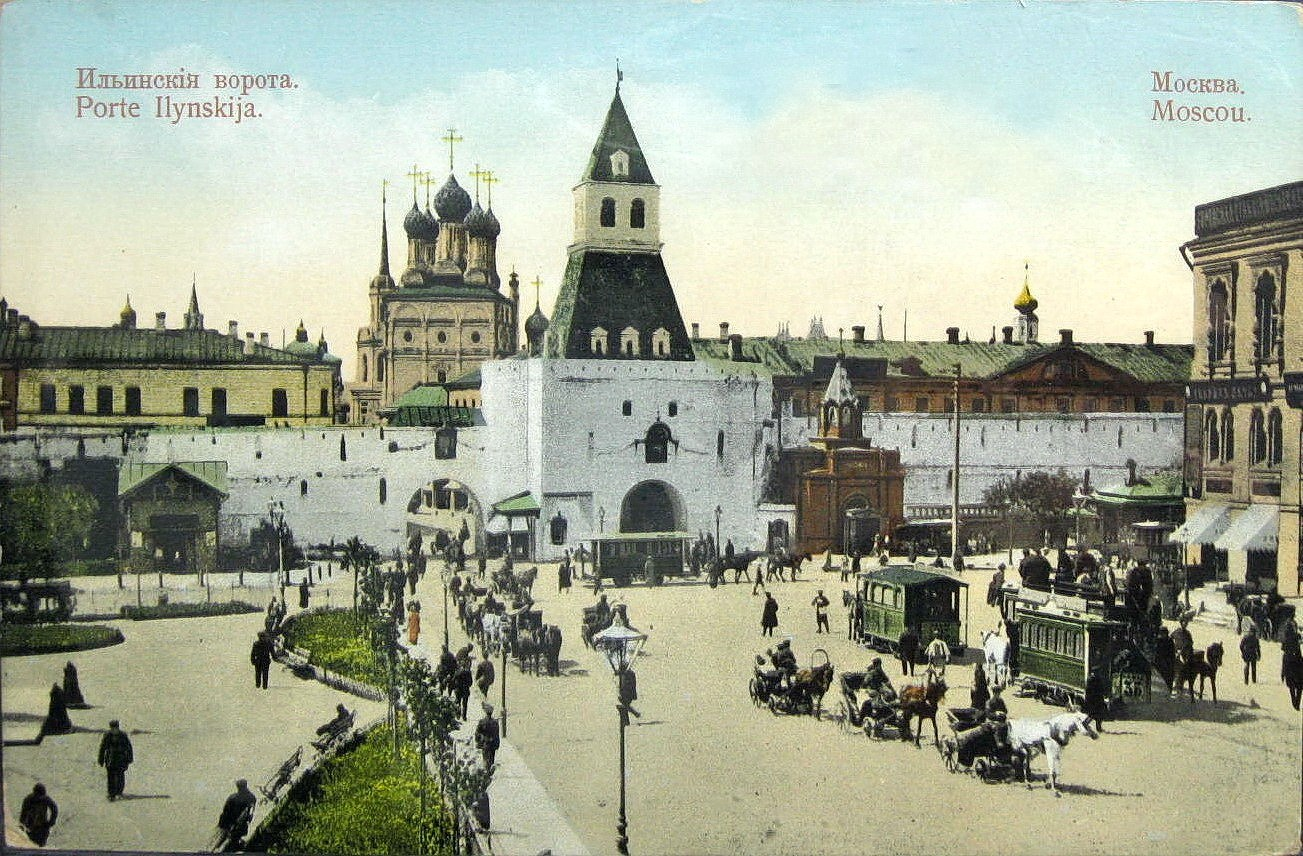 pre-revolutionaty russian postcard of Ilyinsky gate of Kitai-gorod